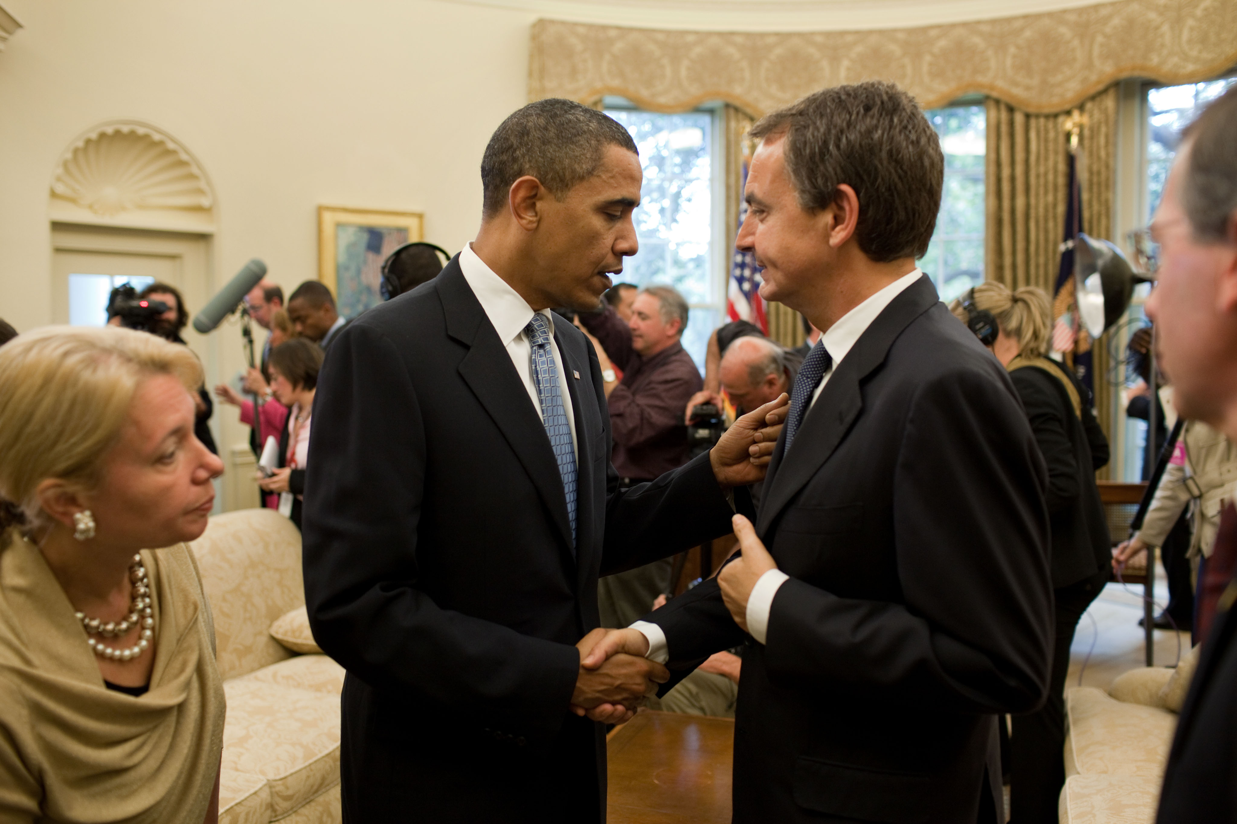 Interpreter Patsy Arizu leans forward to listen to President Barack Obama, as he talks with Spanish President Jose Luis Rodriguez Zapatero in the Oval Office, Oct. 13, 2009. (Official White House Photo by Pete Souza) This official White House photograph is in the public domain from a copyright perspective, so while restrictions such as personality or privacy rights may apply, in general, manipulations are allowed.